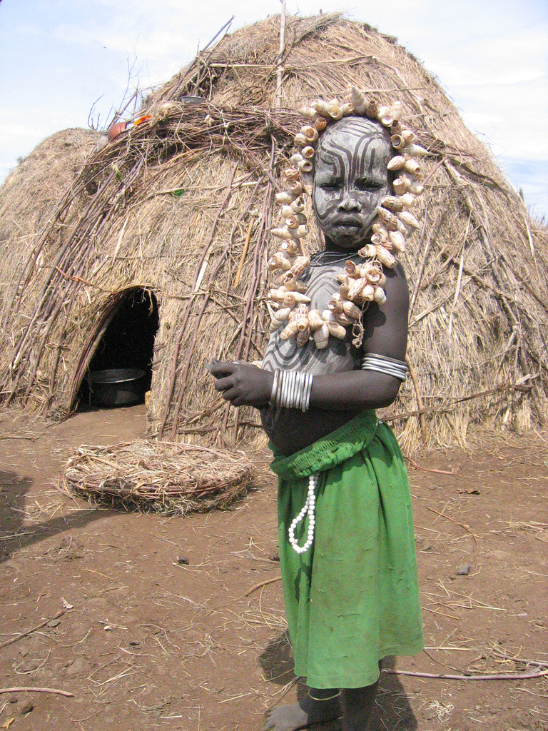 Mursi Tribe boy in the Lower Omo Valley (Ethiopia)